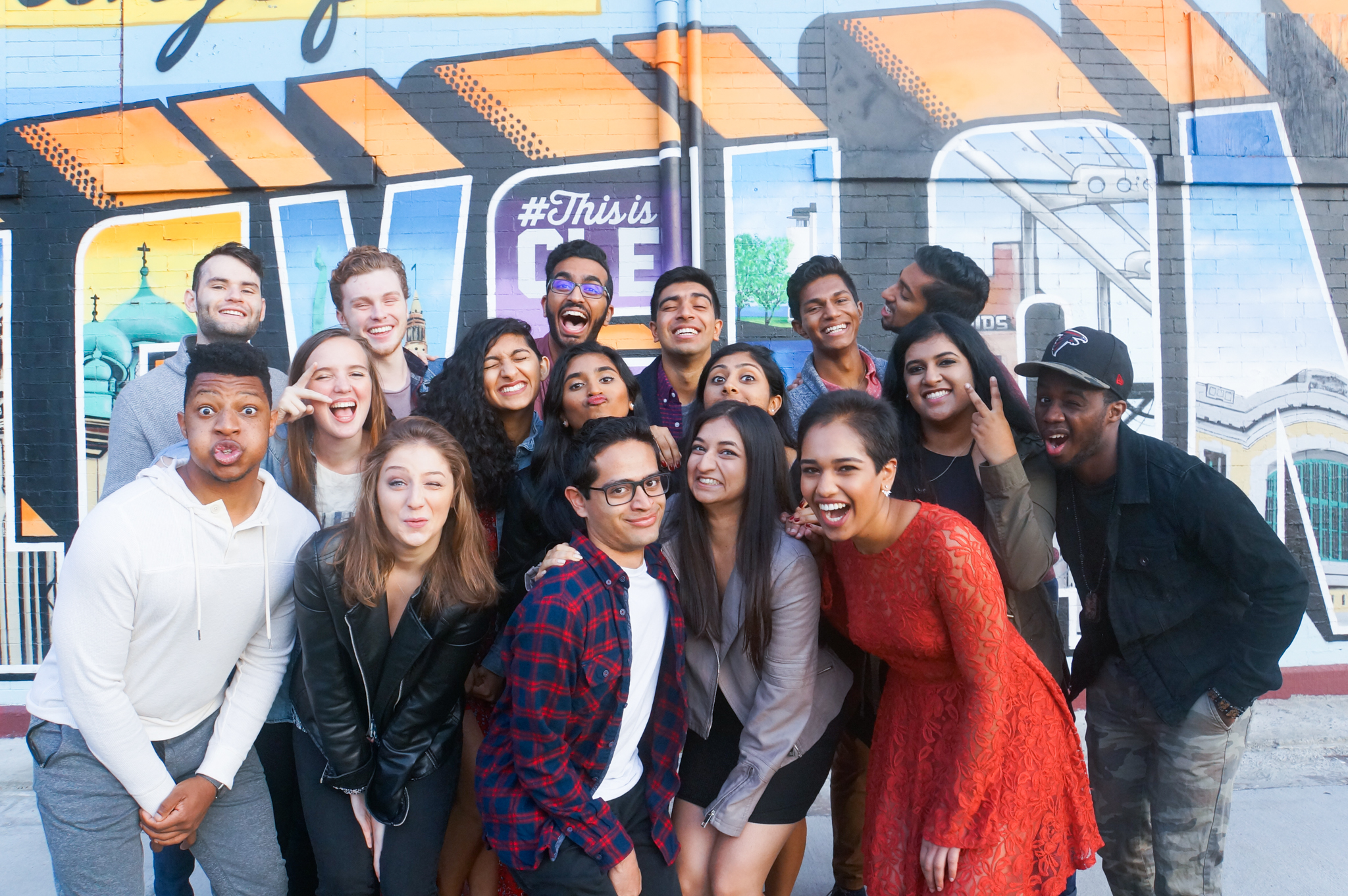 The current members of Dhamakapella, photographed by Prince Ghosh.